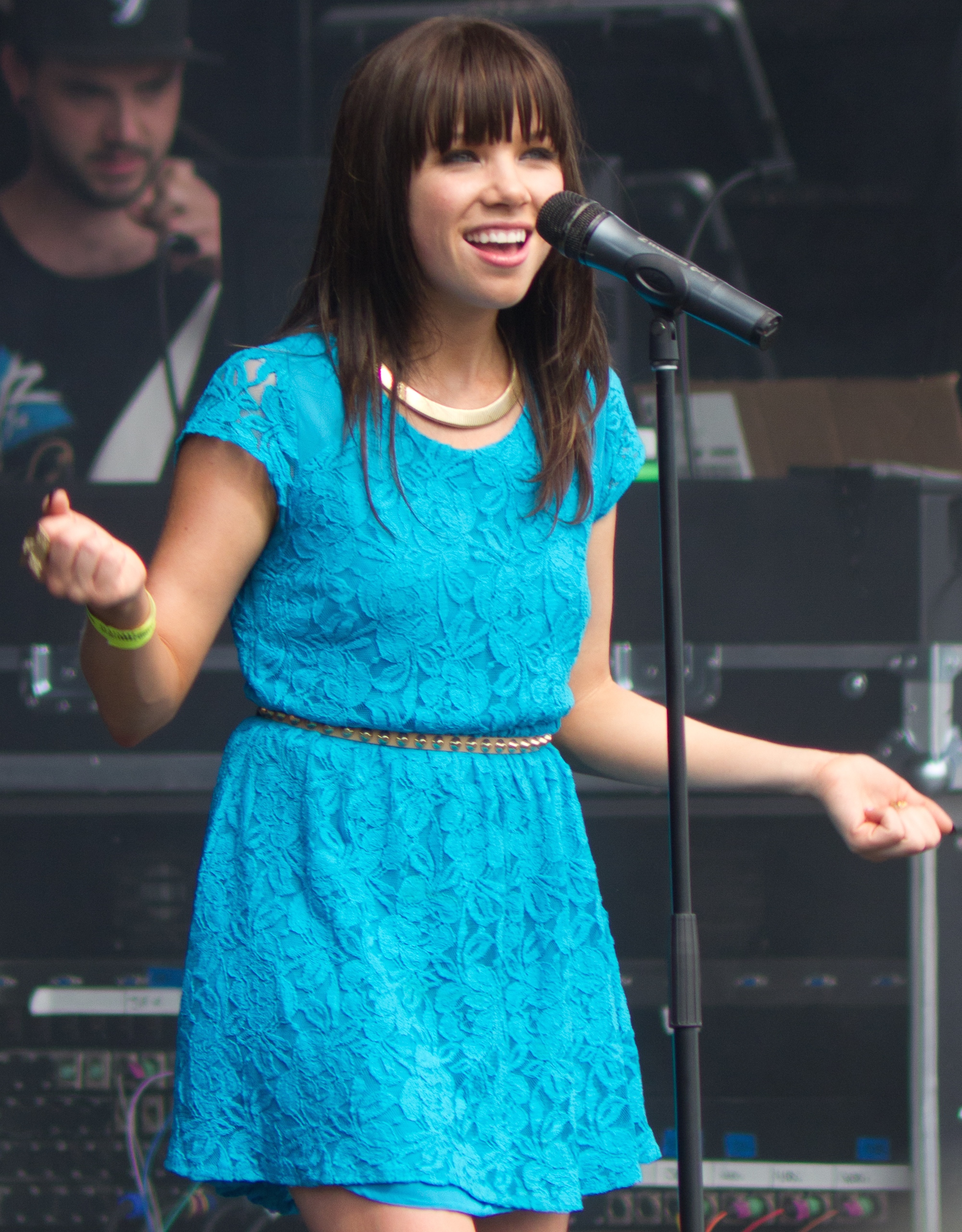 Carly Rae Jepsen performing at the 2012 Burlington Sound of Music Festival